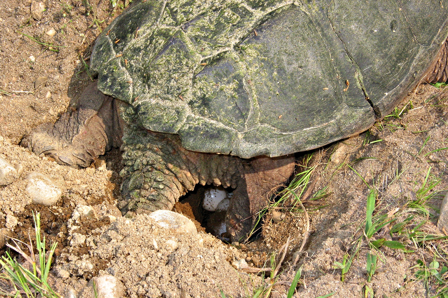 A female snapping turtle (Chelydra serpentina) depositing her eggs in a hole she made in the sandy soil near the St. Lawrence River in northern New York state.